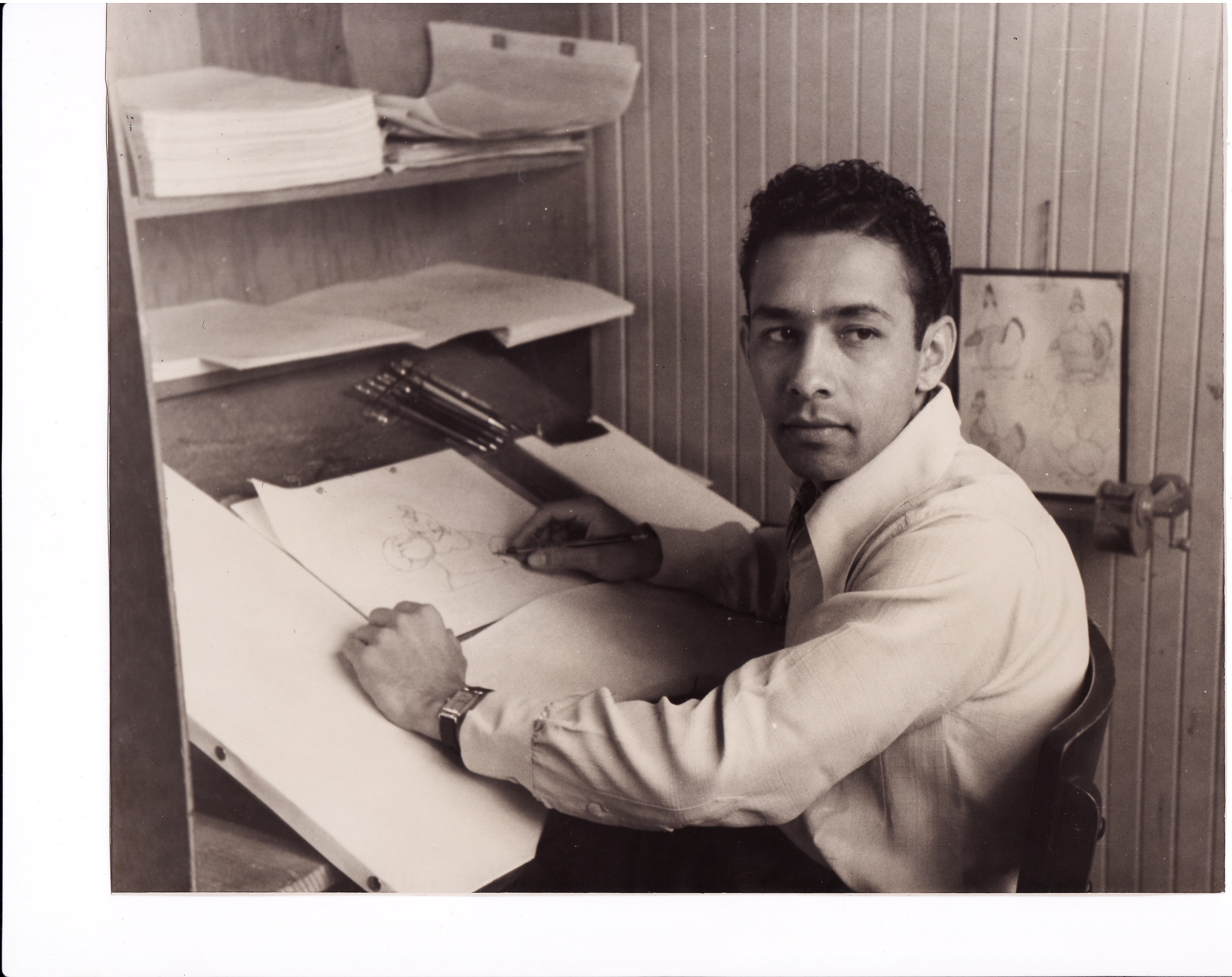 Rudy Larriva working on an animation, likely for Warner Brothers or Disney studios c. 1946